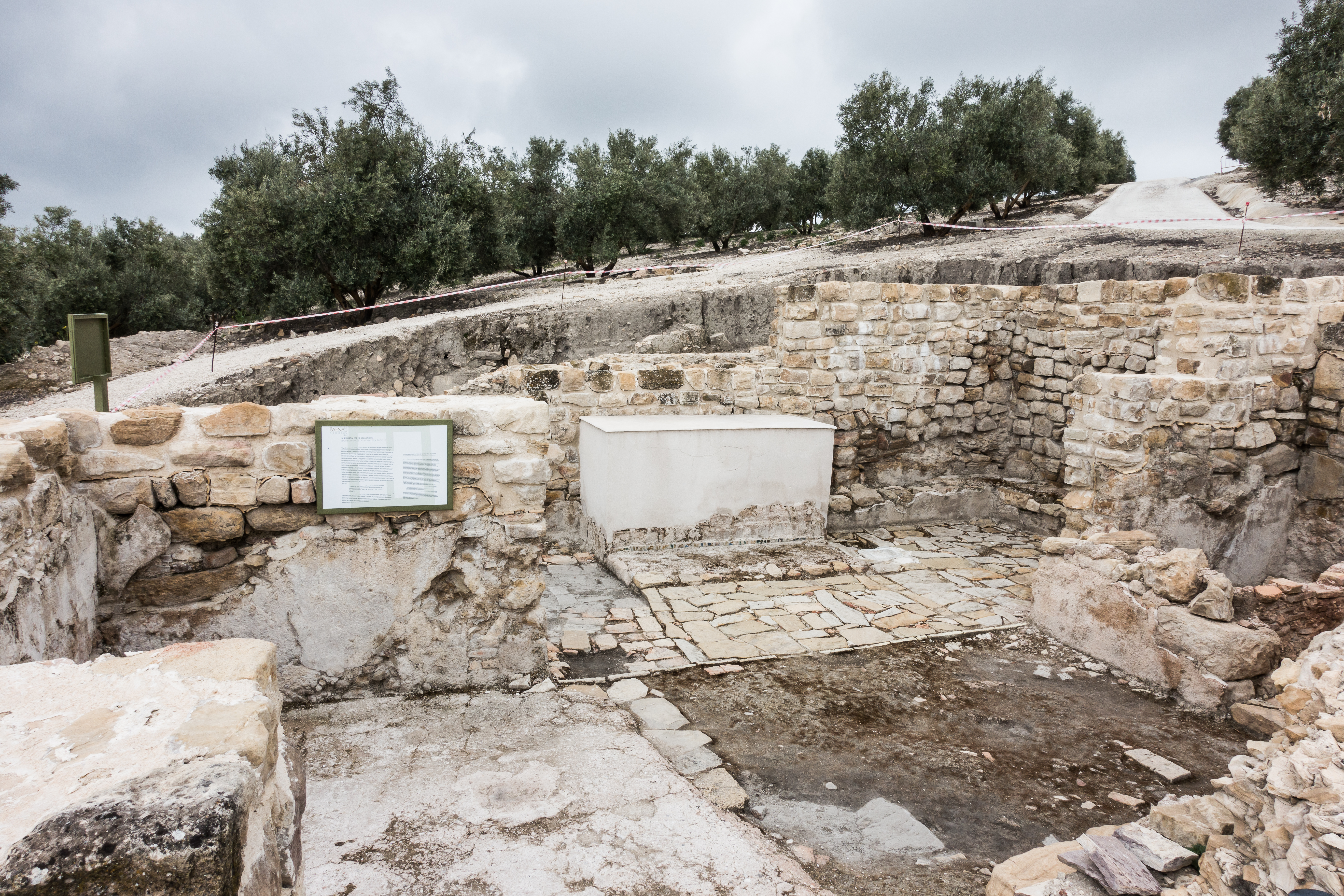 Torreparedones Archaeological Park in Baena, Cordoba, Spain. Hermitage of the Mozarabic saints.